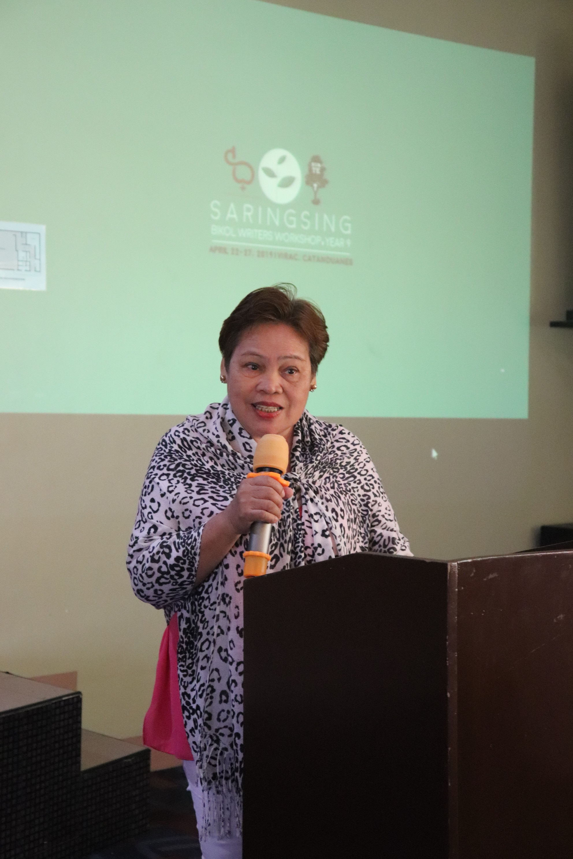 Aida Cirujales during the 9th Saringsing Writers Workshop held in Virac, Catanduanes